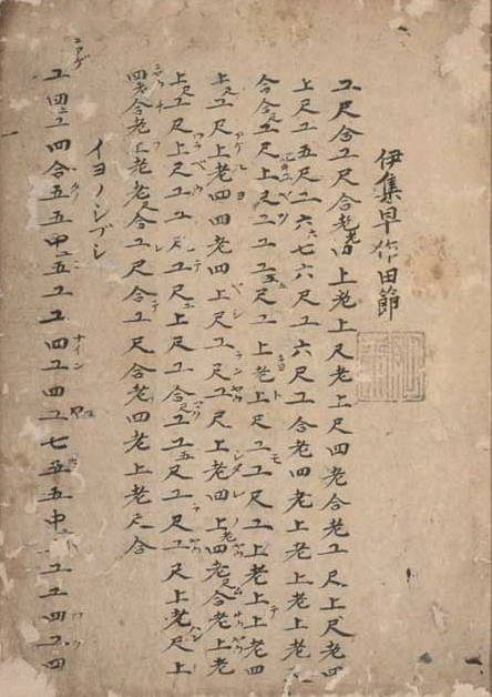 Kunkunshi by Yakabi Choki, University of the Ryukyus Library, Nishihara, Okinawa, Japan